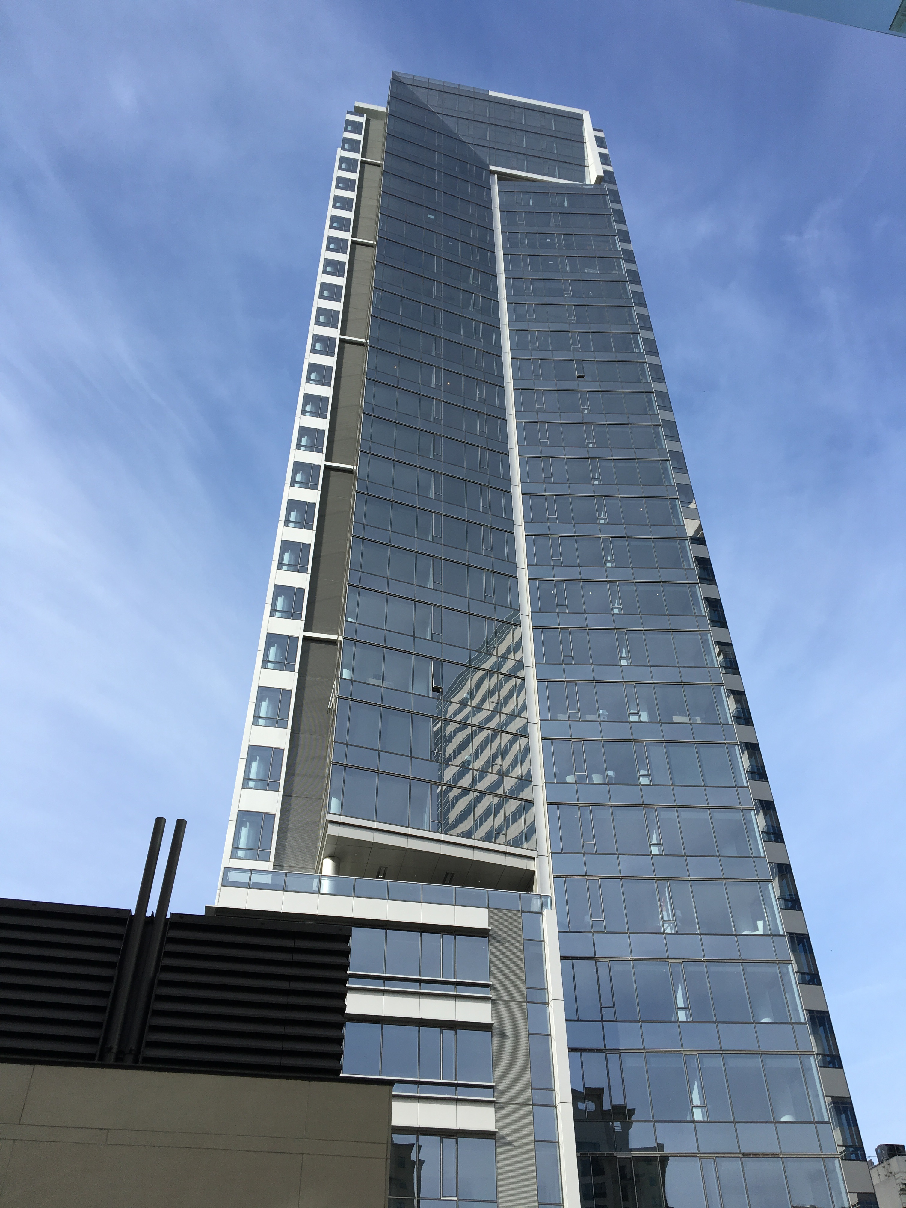 Park Avenue West Tower in Portland, Oregon, April 2016. Viewed from Director Park.